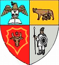 Coat of arms of Bistrița-Năsăud County, Romania.